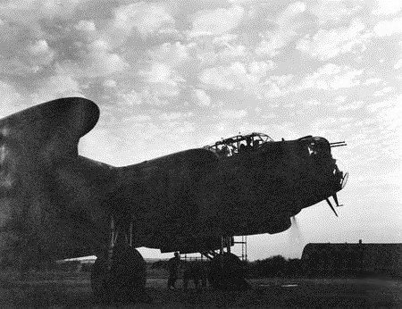 Lincolnshire, England. "M" for Mother, a Lancaster aircraft belonging to No. 467 Squadron RAAF in Bomber Command based at RAF Station Waddington, prior to taking off on a raid on Berlin.